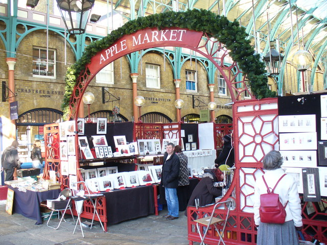 Apple Market, Covent Garden Market traders inside Inigo Jones' "handsomest barn in England".